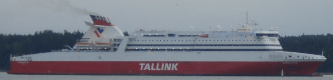 Tallink MS Superfast VII, approaching Turku Repair Yard at Naantali, Finland.